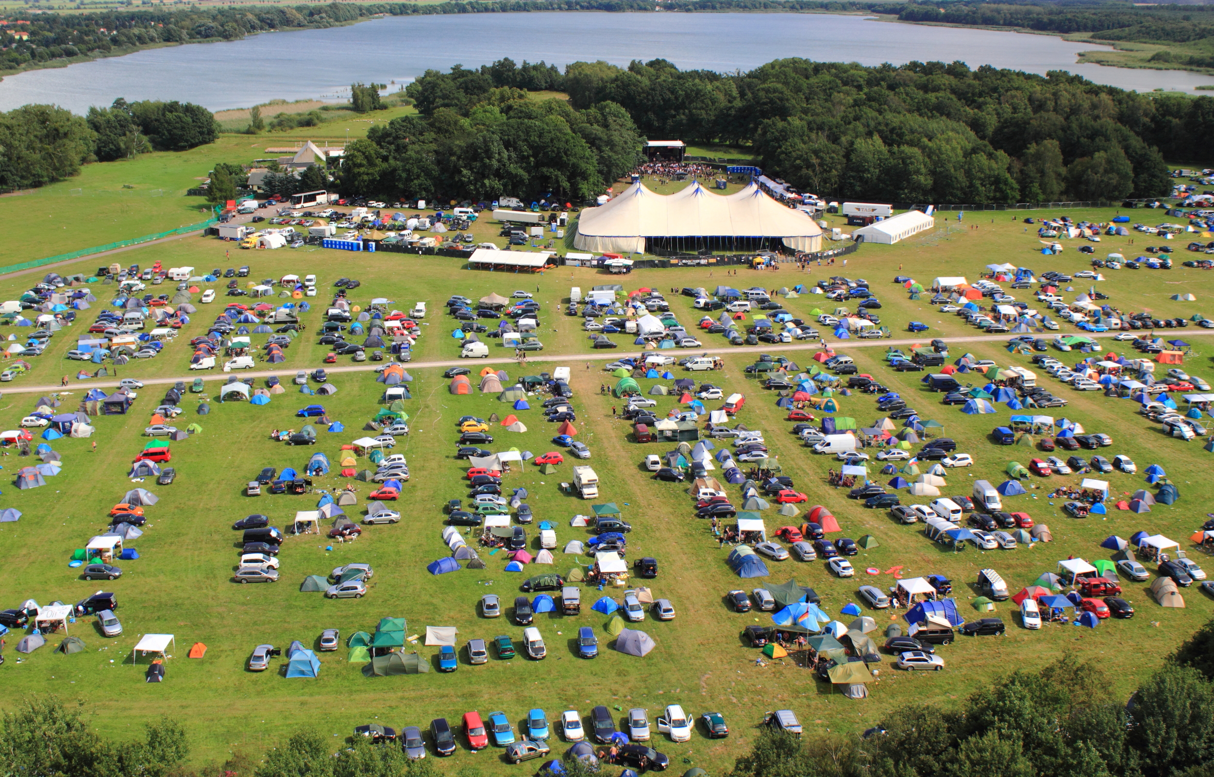 KAP (Kite Aerial Photography)